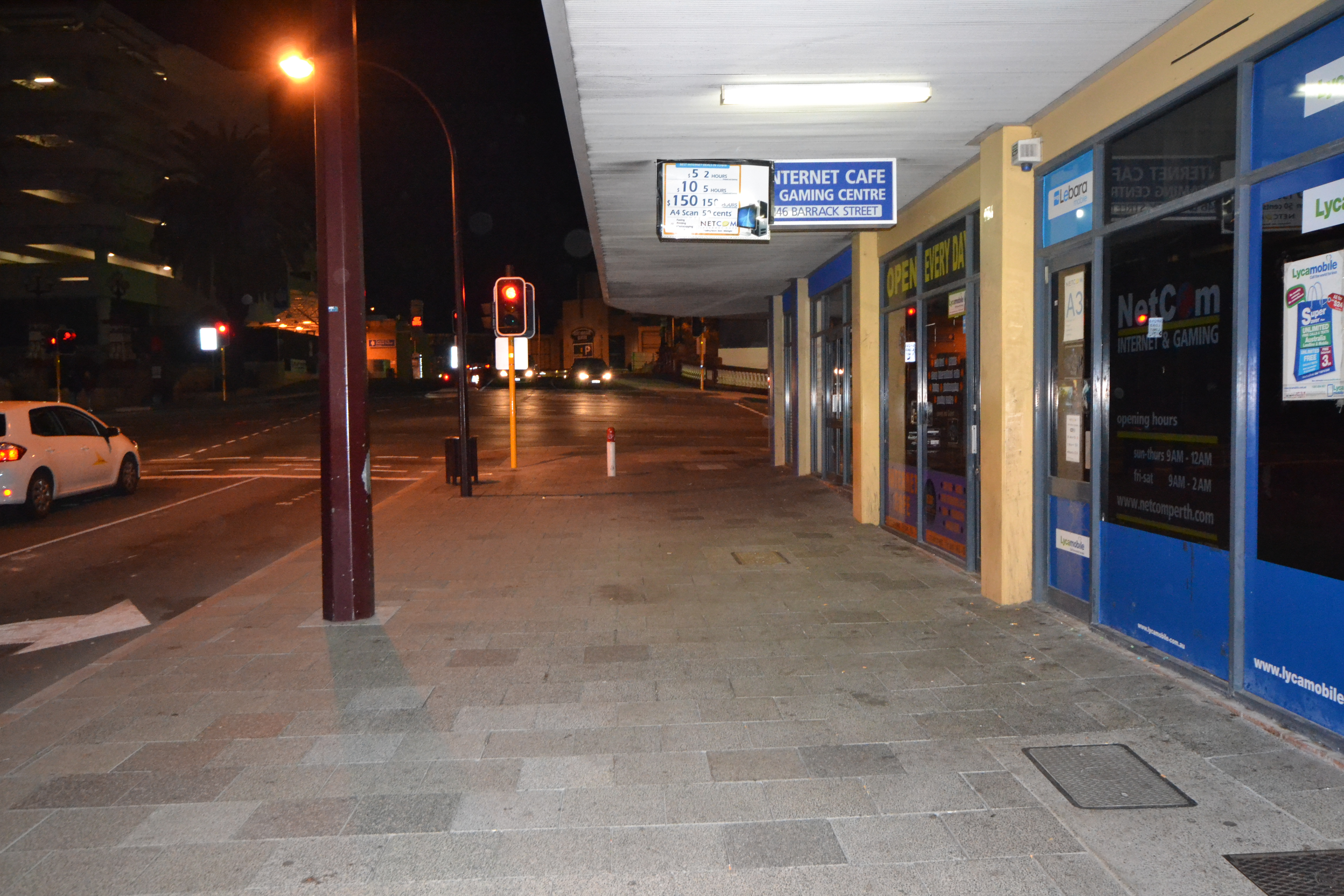 Murder Location, Barrack St, Perth (9.42pm, 1 July 2013)